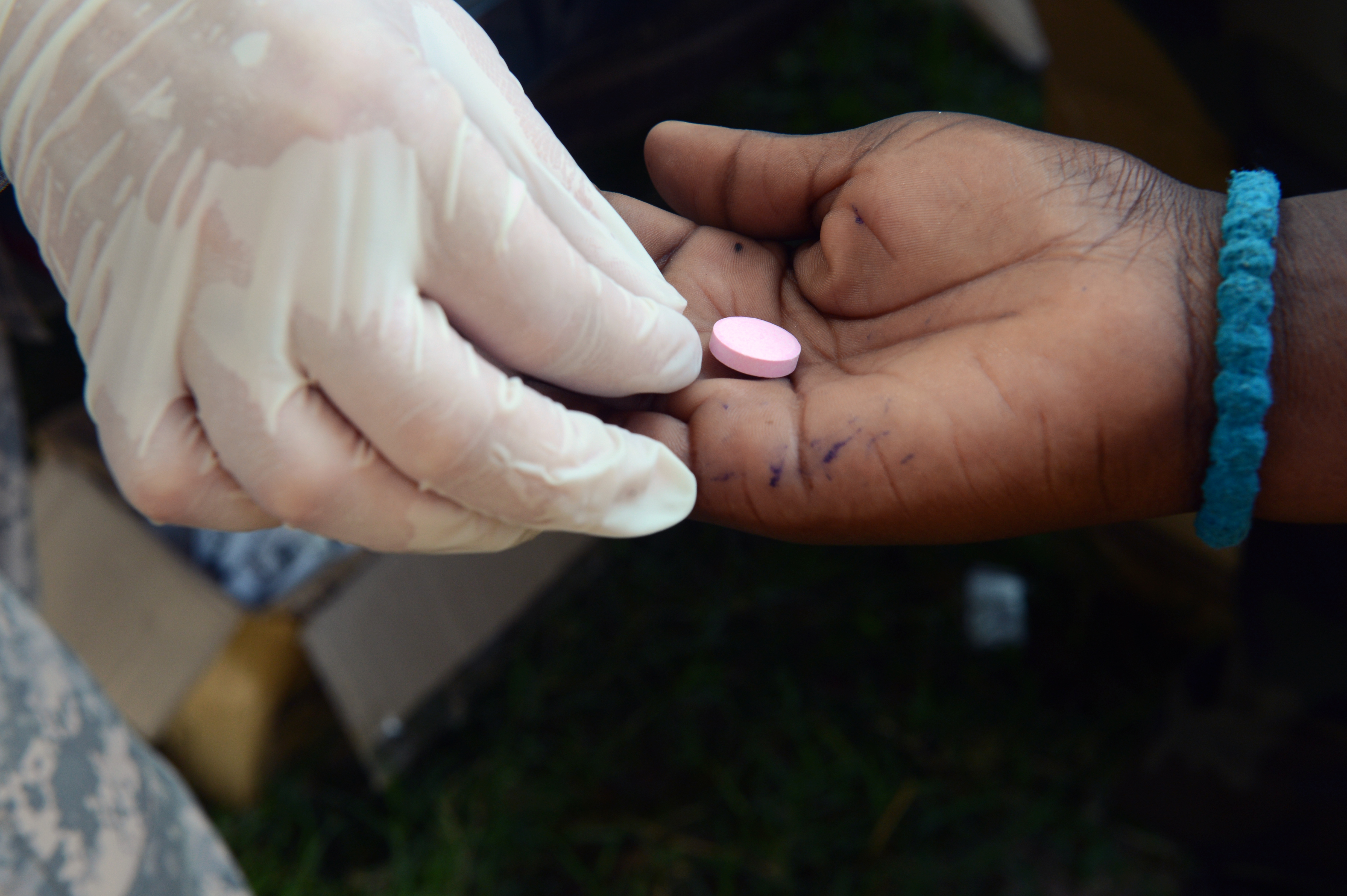 The gloved hand of U.S. Army Capt. Courtney Legendre, a physician assistant with the 411th Civil Affairs Battalion, in support of Combined Joint Task Force-Horn of Africa, gives a deworming tablet to a Kakute, Uganda, villager April 23, 2013. The tablets control parasitic infections, common in Kakute, often caused by poorly sanitized water and food sources. Healthcare experts from the Uganda People's Defense Force and CJTF-HOA Surgeon Cell and 411th CA BN dispensed the tablets as part of One Health, a two-week program that recognizes the health of humans, animals and ecosystems, like their nations, are interconnected. In a whole-of-government approach, One Health was coordinated by the Ugandan government, UPDF, U.S. Agency for International Development, U.S. State Department, U.S. Embassy in Uganda and CJTF-HOA to help strengthen Uganda's healthcare capabilities. (Photo by U.S. Navy Petty Officer 1st Class Tom Ouellette)